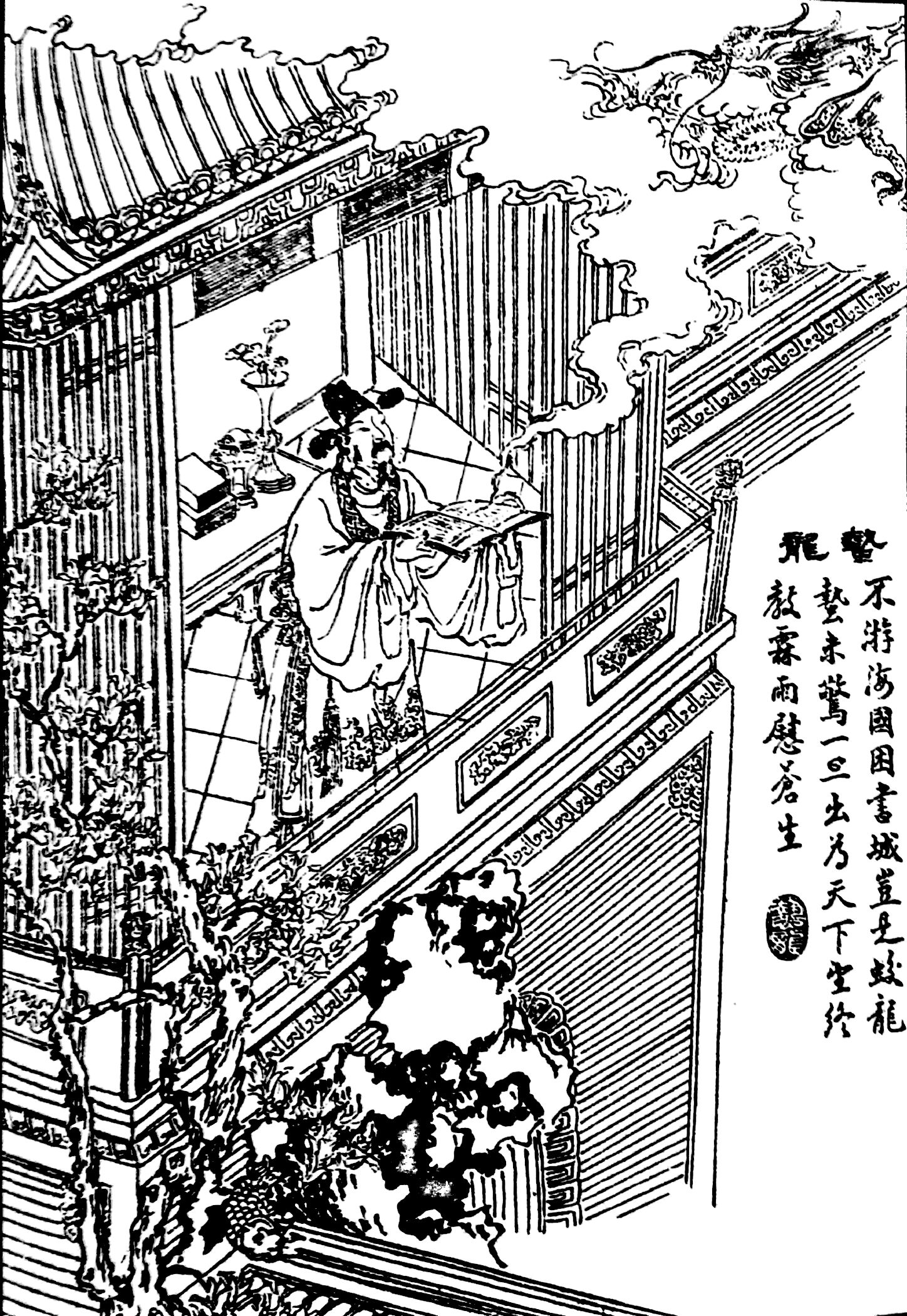 An illustration of a scene from the short story "Dragon Dormant" collected in Strange Tales from a Chinese Studio (Liaozhai Zhiyi).